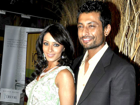 Indraniel barkha sengupta